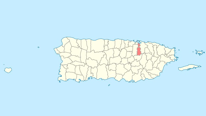 Municipal locator of Puerto Rico